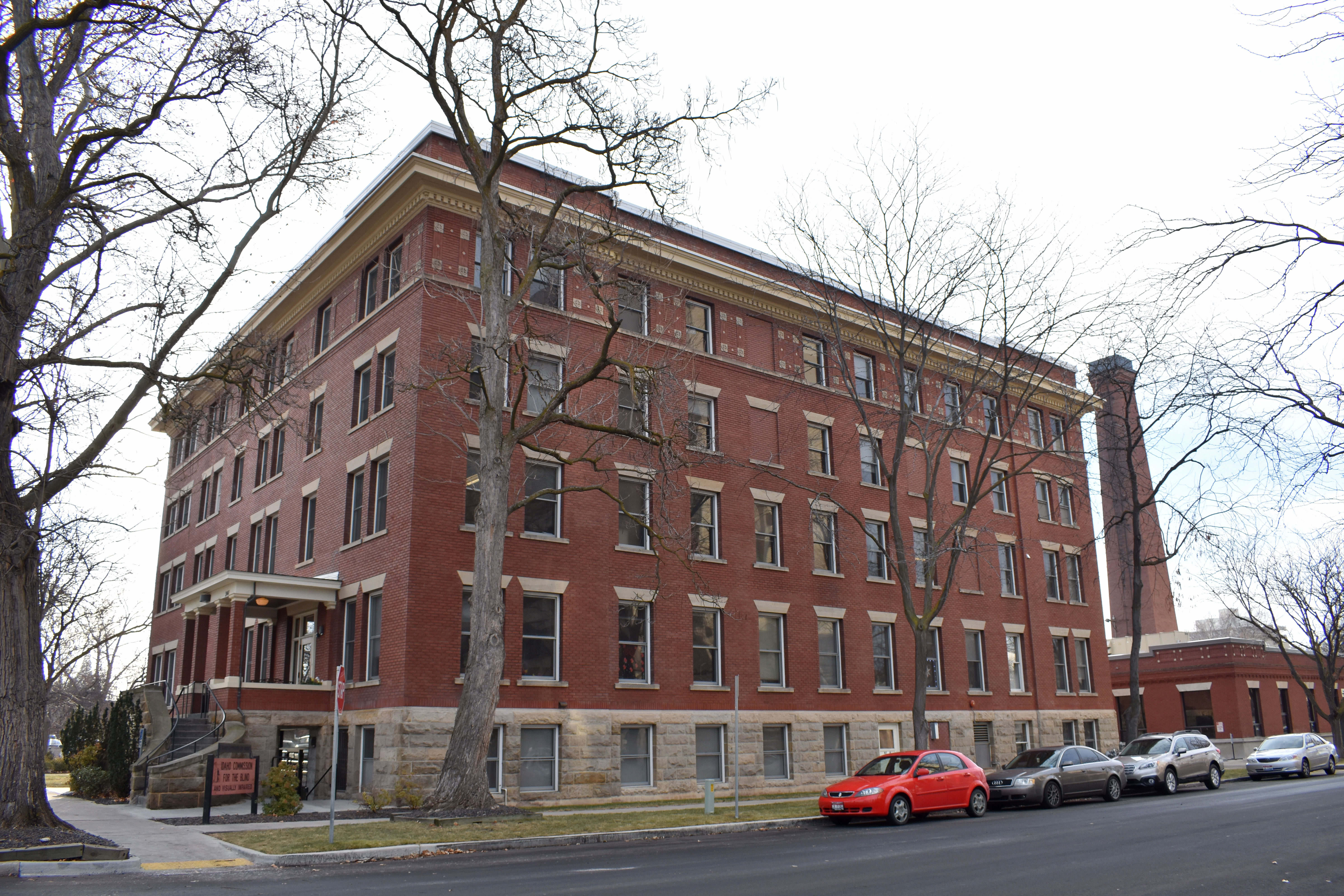 St. Alphonsus Hospital Nurses Home (1920) was designed by Tourtellotte & Hummel and is listed on the National Register of Historic Places.